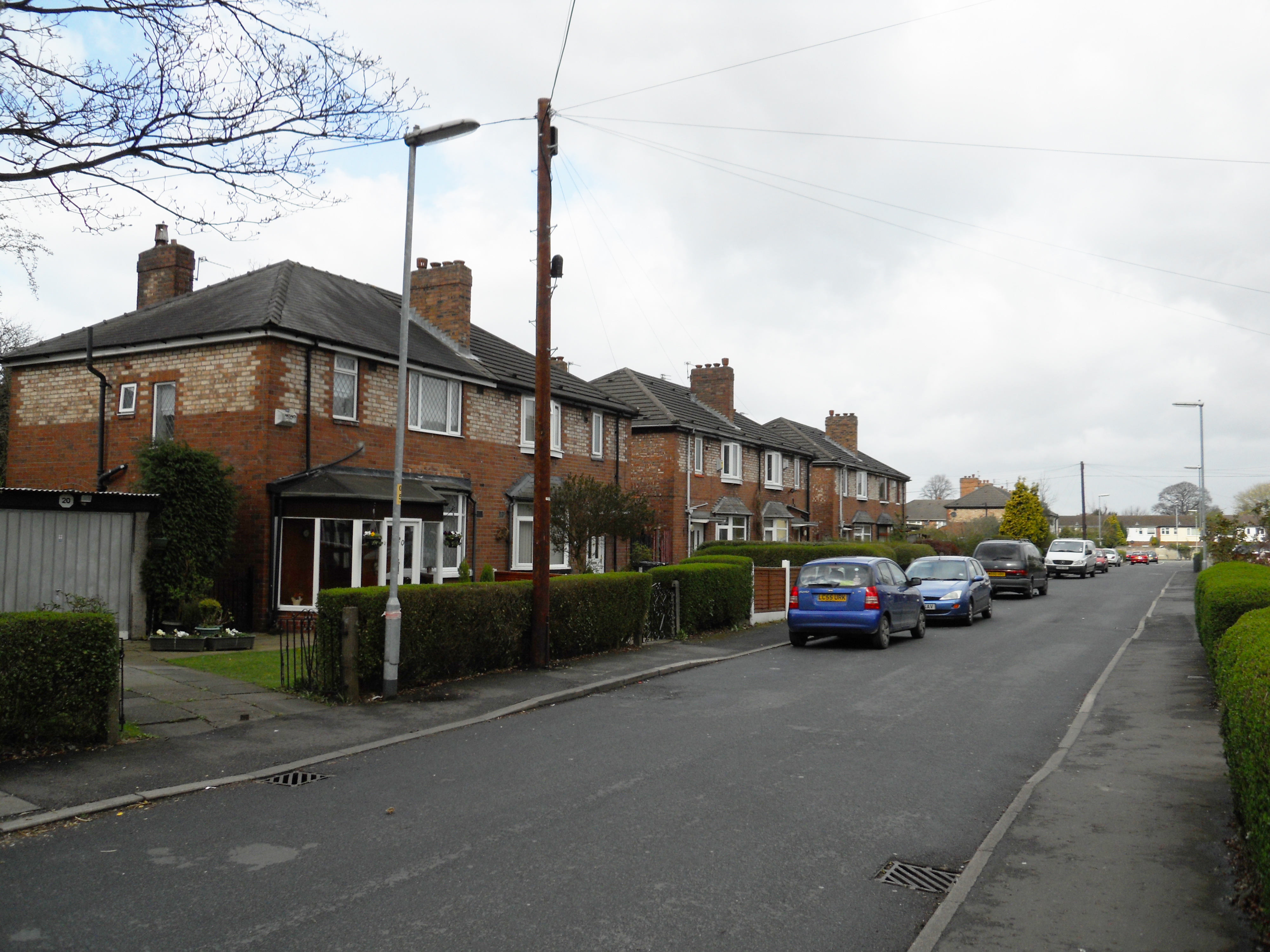 Cranwell Drive, Burnage, Manchester, the street where the Gallagher brothers used to live